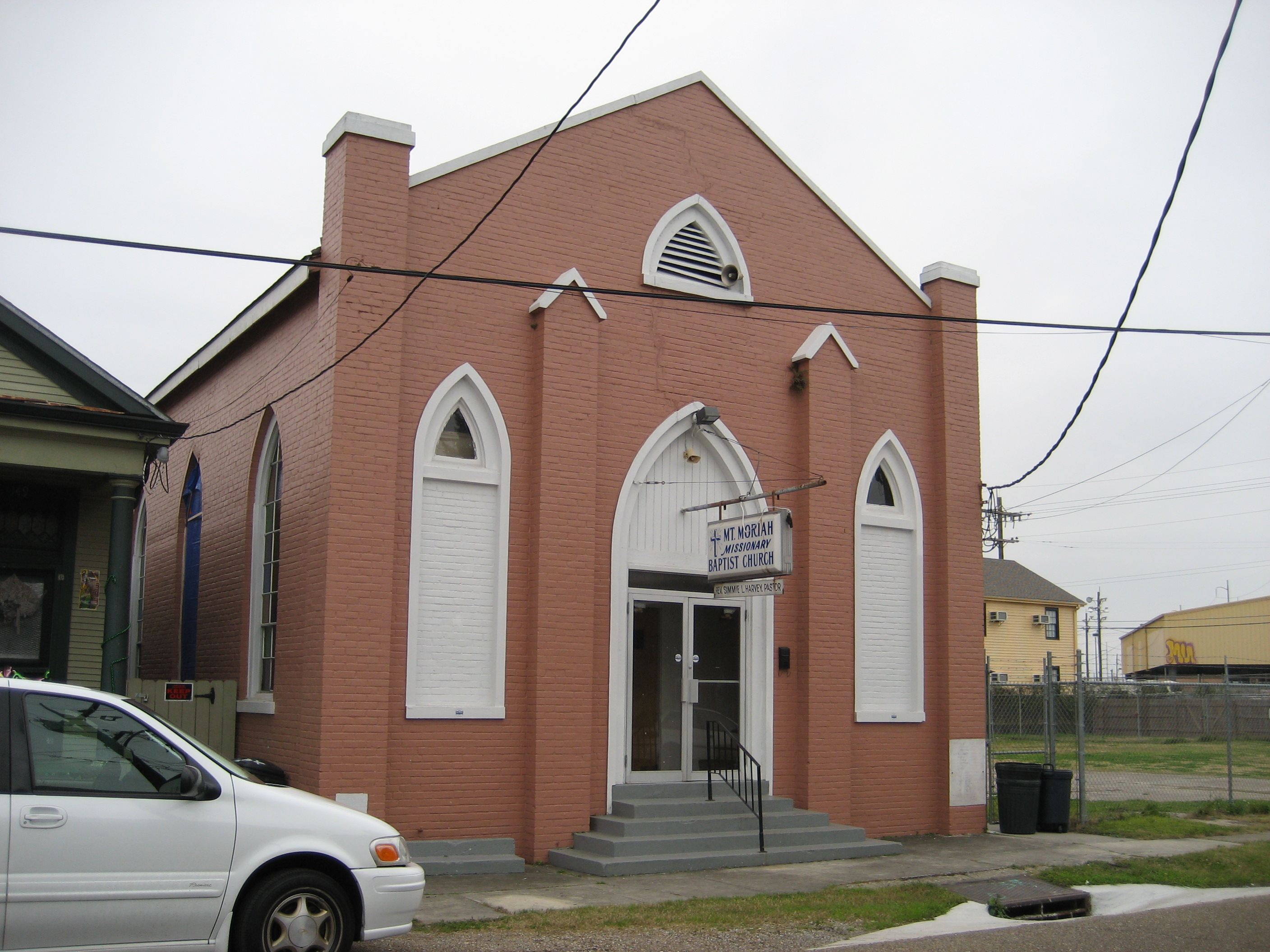 Mount Moriah Missionary Baptist Church in the Black Pearl neighborhood of the Carrollton section of New Orleans